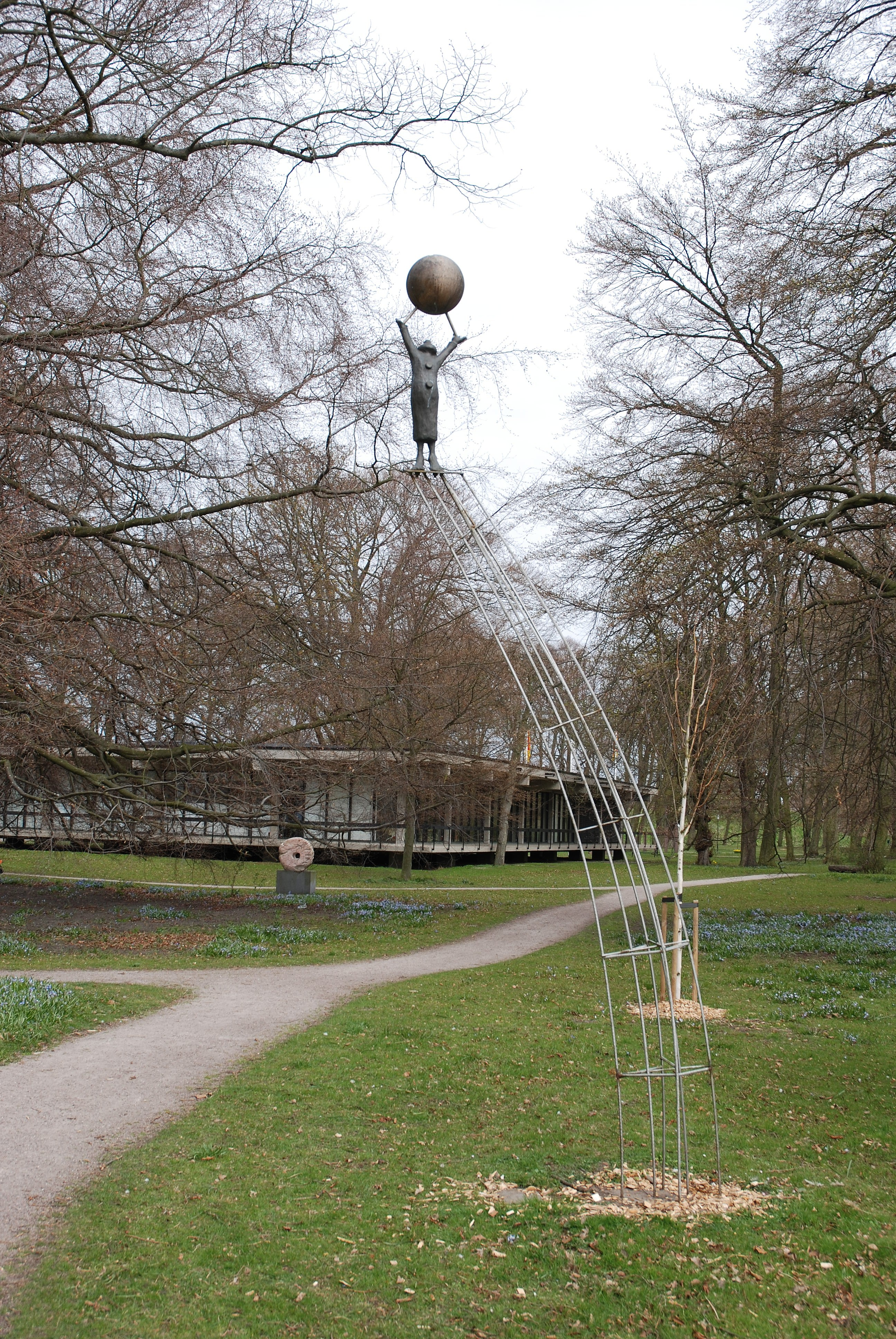 Bie Norling´s Tankens kraft (Might of Thought), bronze and steel, Landskrona, Sweden